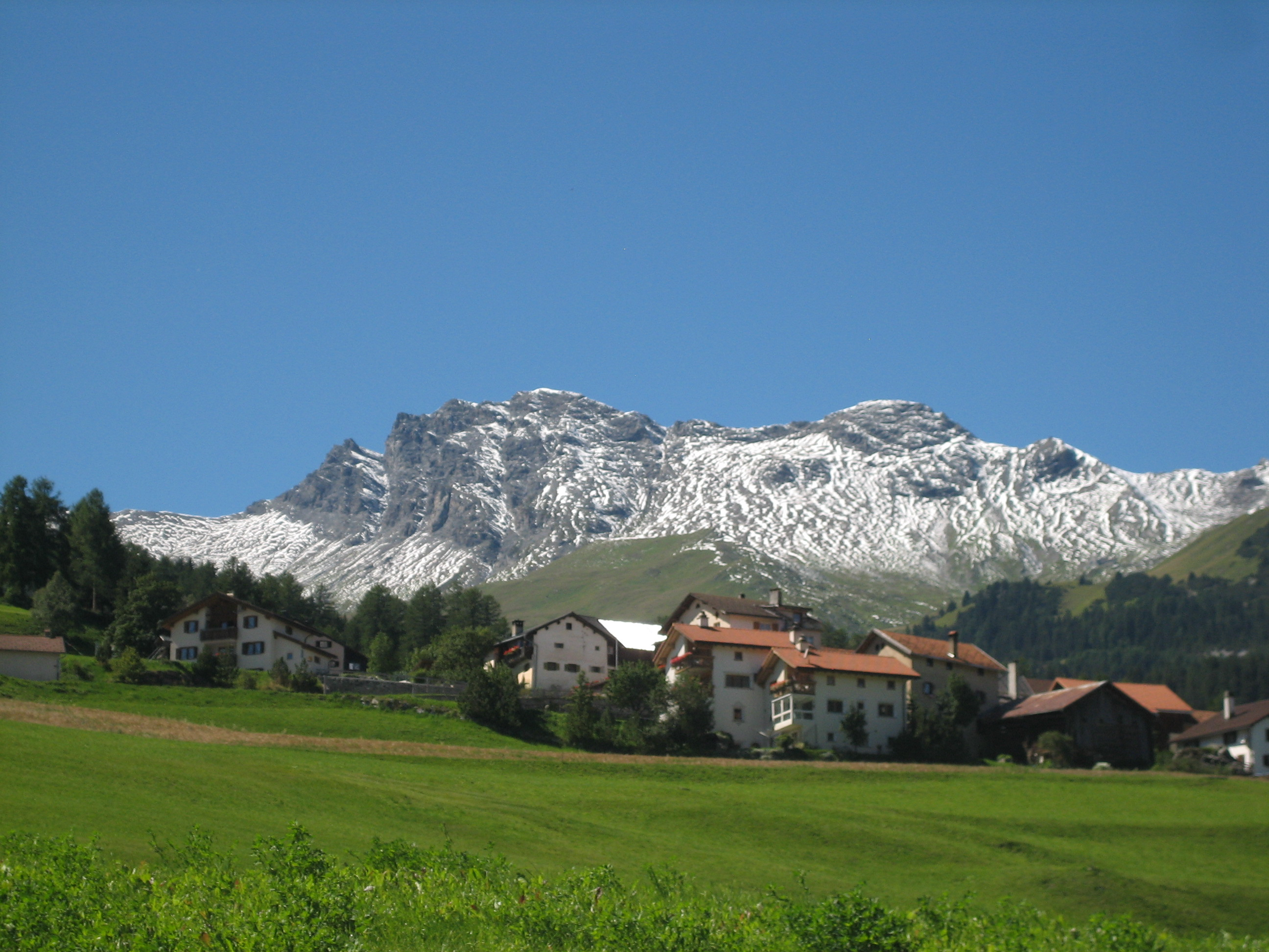 Piz Curvér with Parsonz, Riom-Parsonz, Salouf, Andeer, Zillis-Reischen, Grison, Switzerland